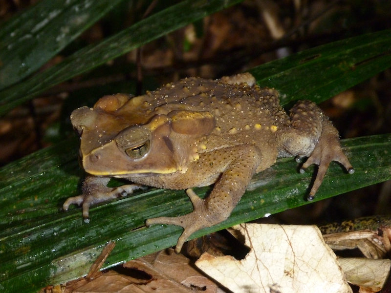 Ingerophrynus celebensis in Gunung Balease (South Sulawesi Province, Sulawesi, Indonesia)